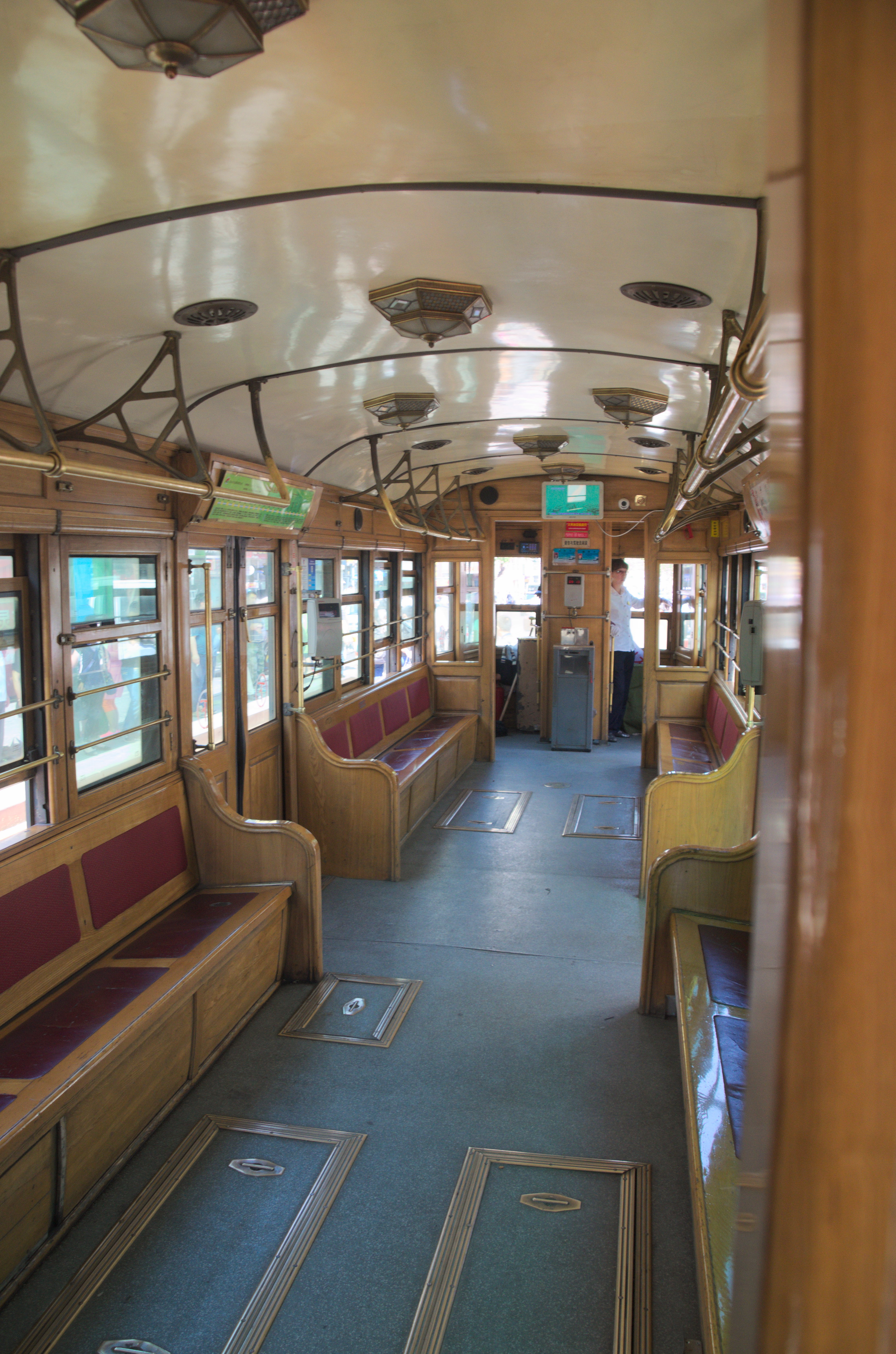 Old tramway line in Dalian, still in activity. All tram are operated by women in this city.